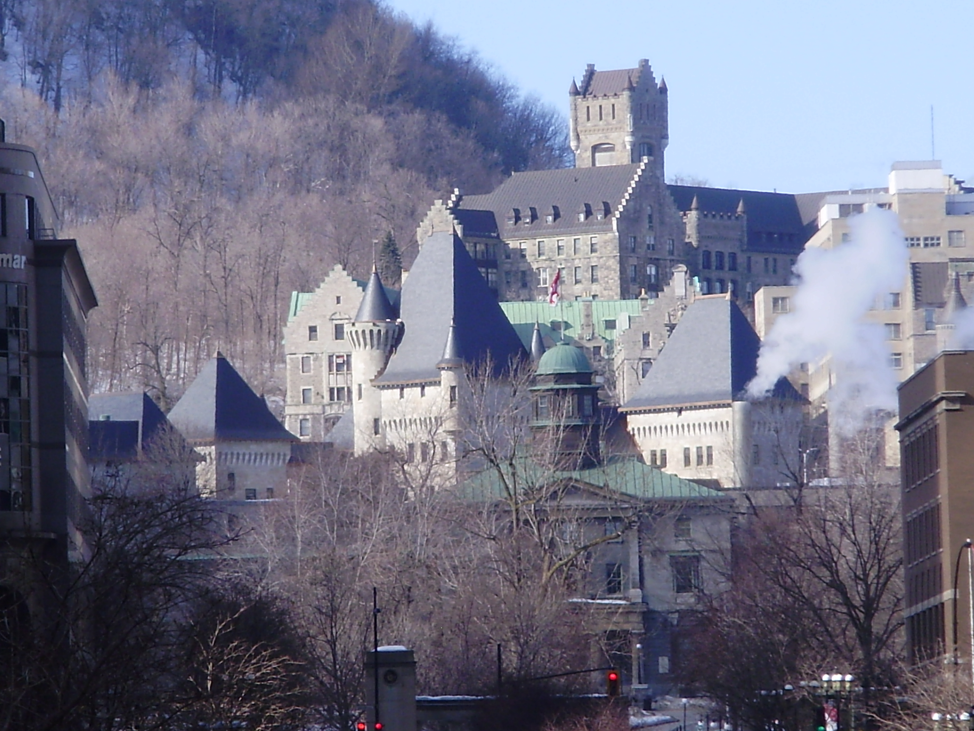 McGill University, Montreal, Quebec, Canada